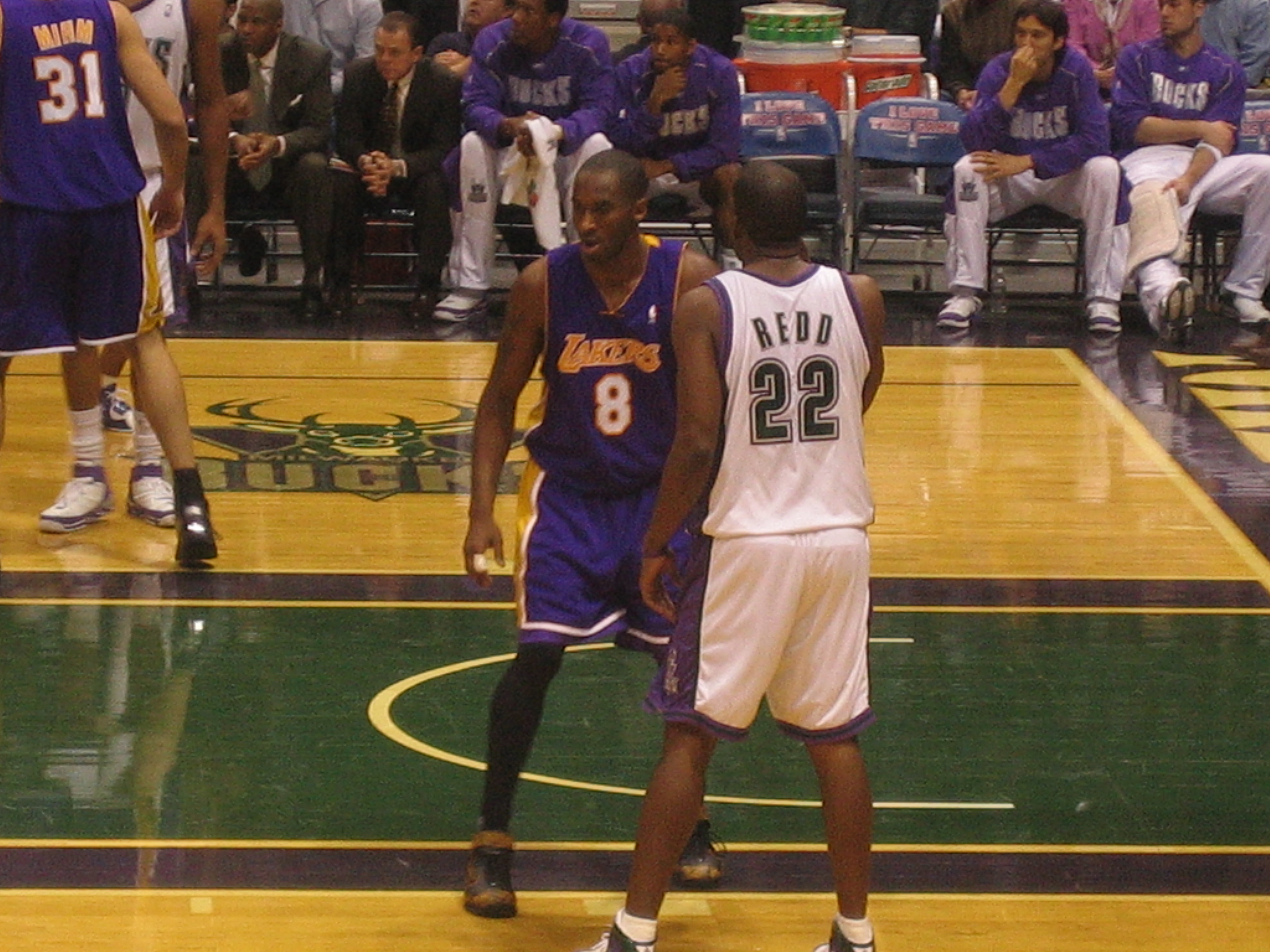 Michael Redd and Kobe Bryant at a Milwaukee Bucks game in 2005.